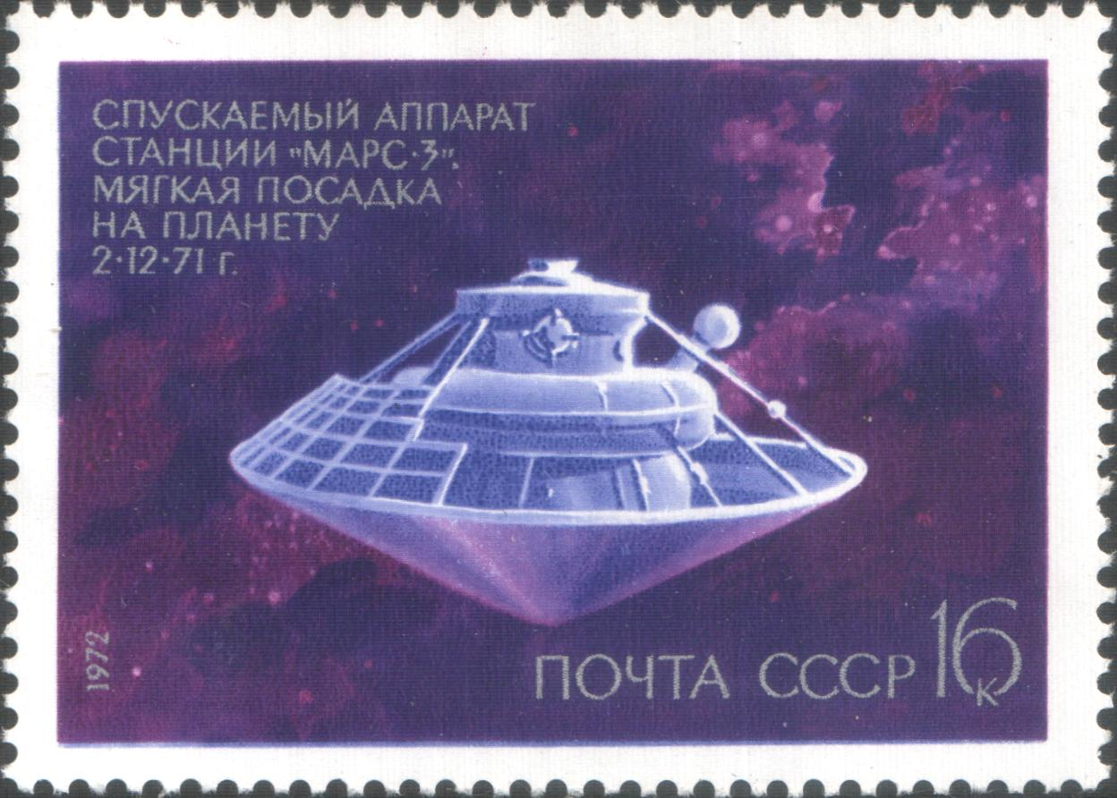 USSR stamp